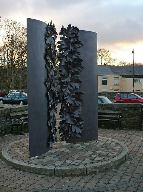 Memorial to Idris Davies. This piece of public artwork commemorates the Rhymney poet Idris Davies who lived nearby for a time. 691853 The inscription "When April came to Rhymney with shower and sun and shower" is the start of one of his poems.